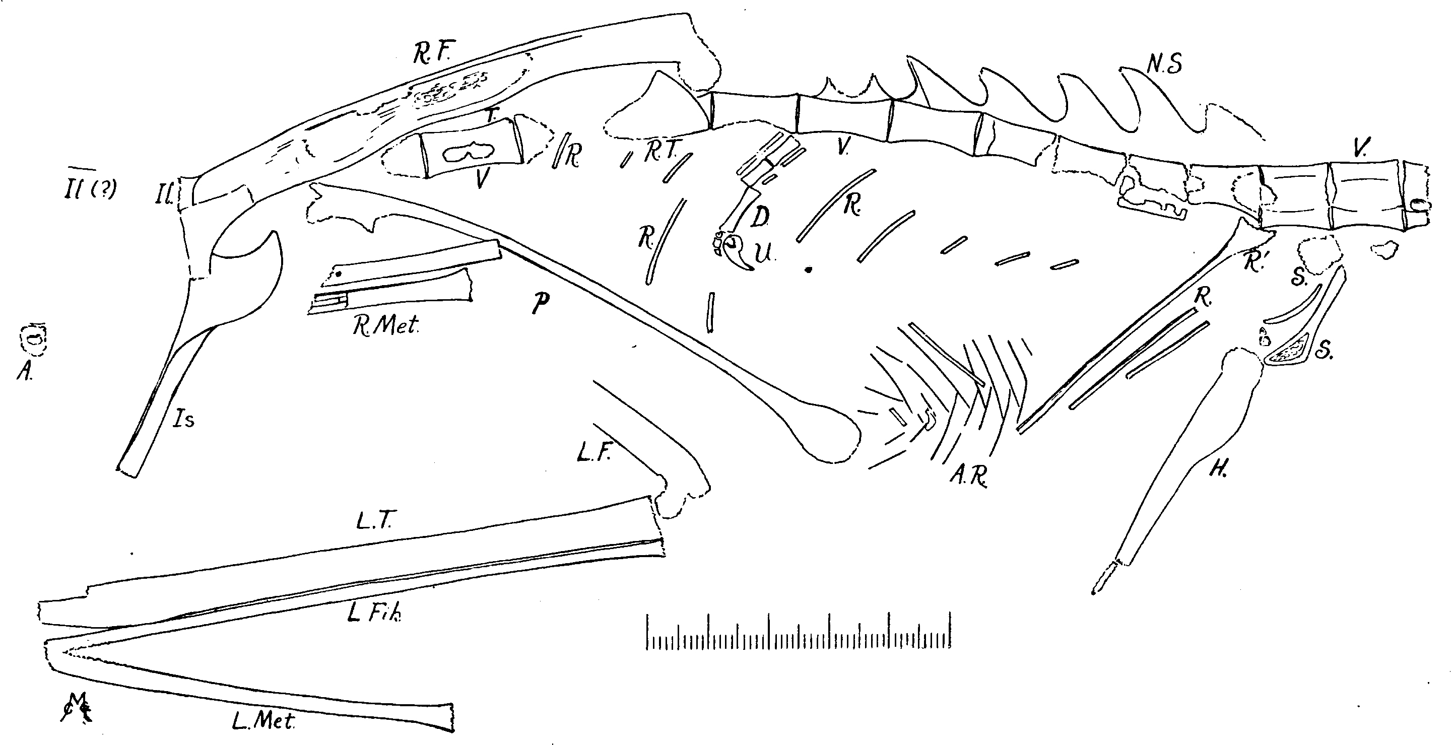 Interpretative drawing of the Podokesaurus holyokensis holotype.